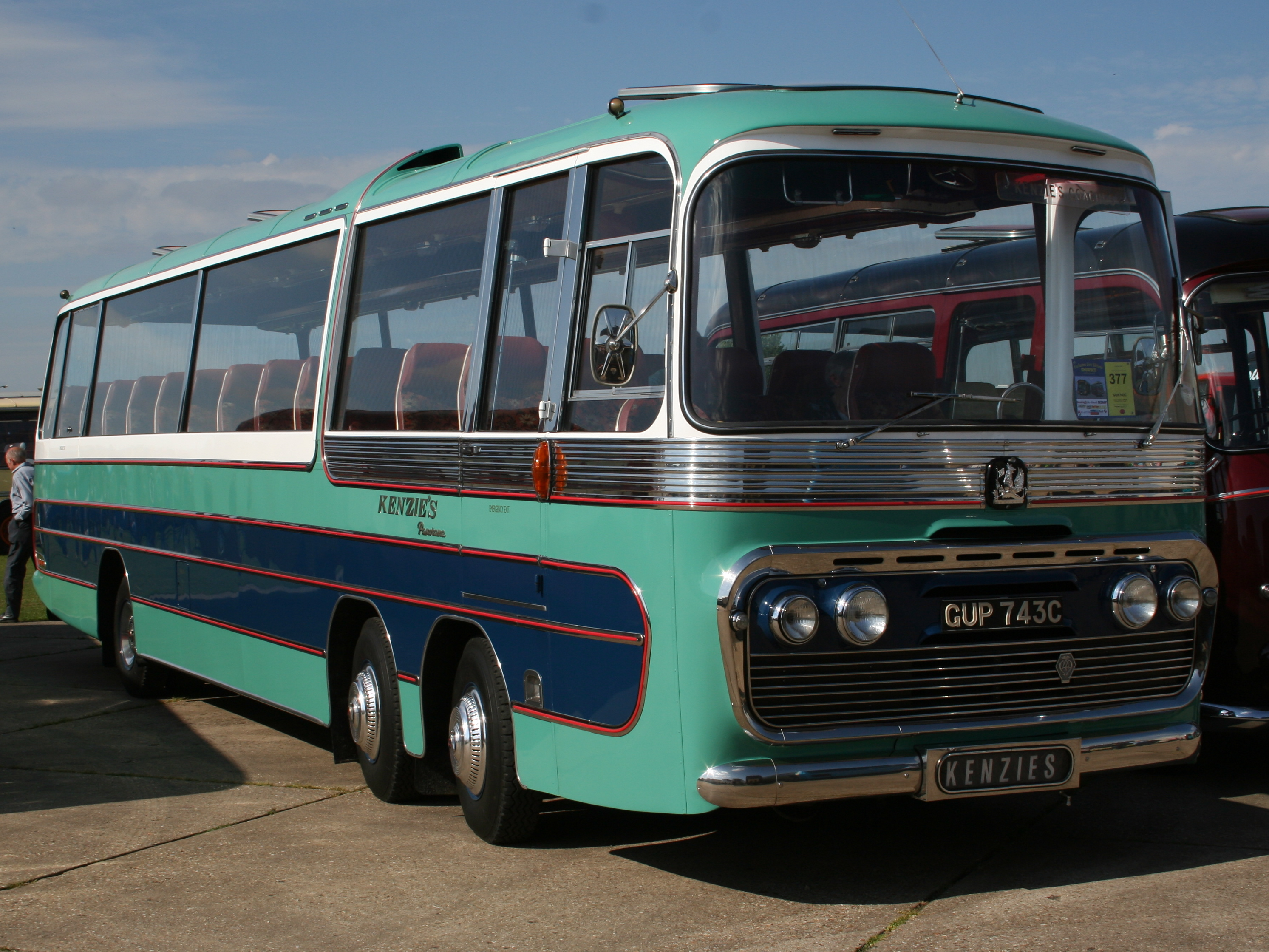 A preserved ex-Kenzies (of Shepreth) GUP 743C, a Bedford VAL twin steer coach with Plaxton Panorama Elite bodywork.